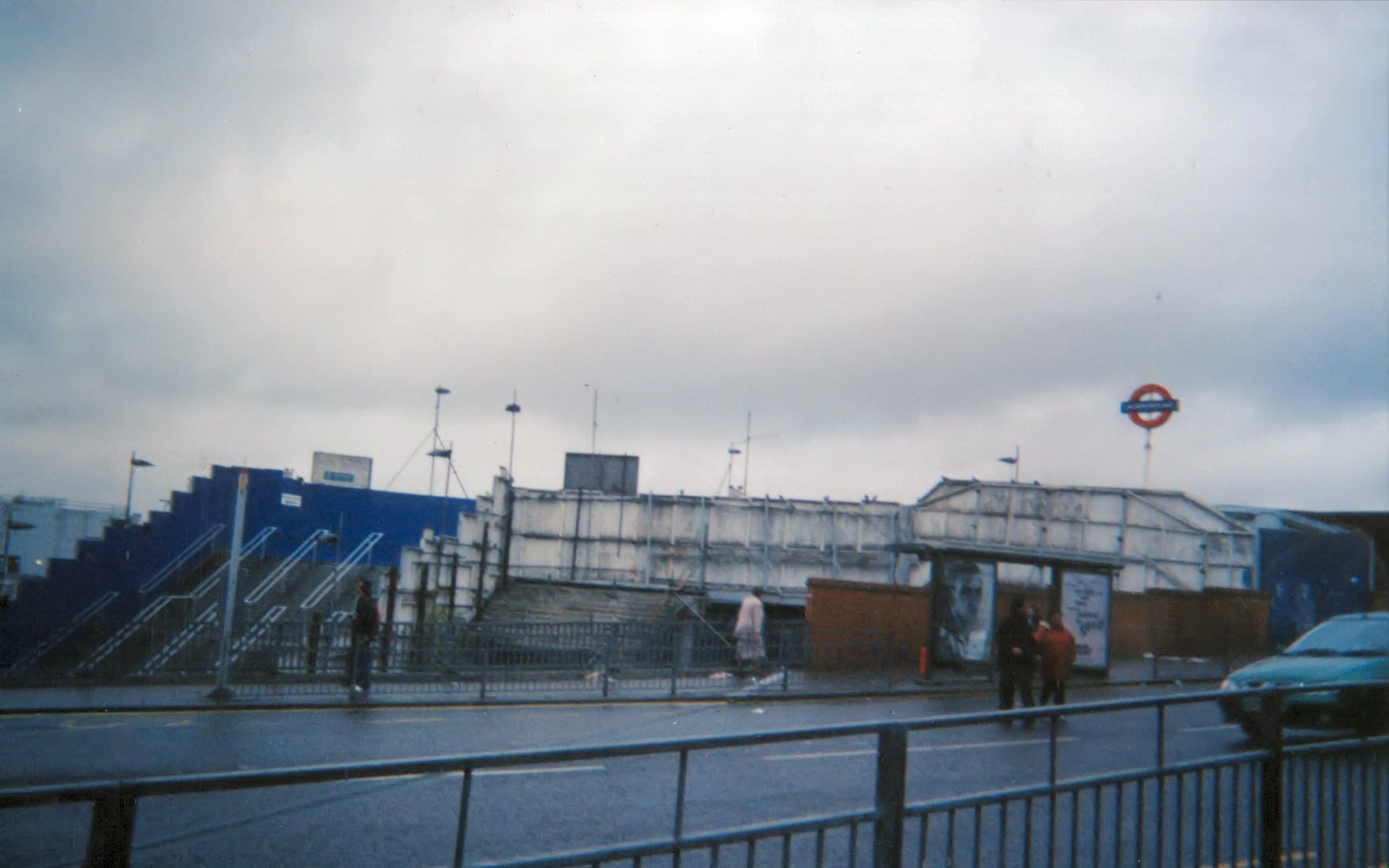 The original extension to Wembley Park tube station. Built for Euro 96, the extension remained unfinished for years (by the time of this photo the original 'Wembley Park 2000' design had been covered with blue paint) until being completed in time for the new Wembley Stadium which opened in 2007. The finished extension can be seen at Image:Wembley Park tube station extension.jpg.